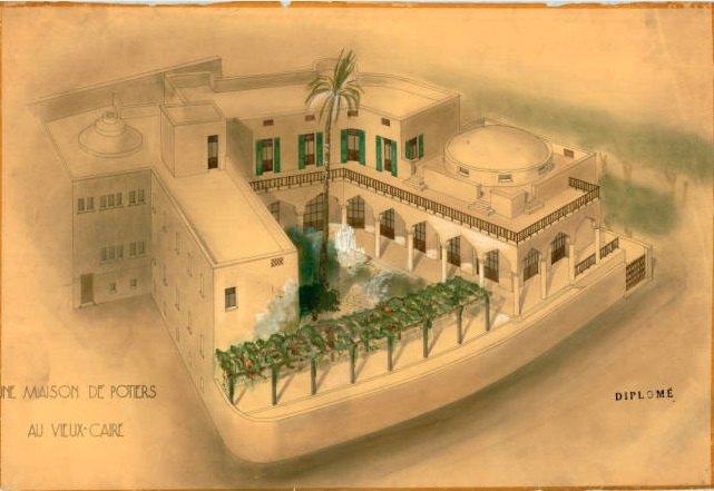 Perspective drawing of the Old Cairo Potter's house.